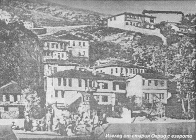 city of Ohrid